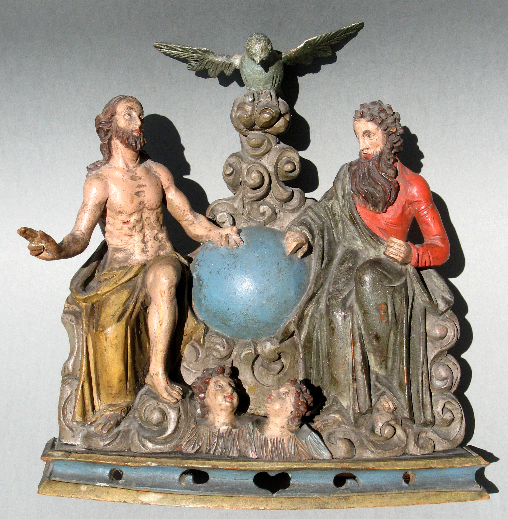 Carved and polychromed Holy Trinity from Val Gardena, 18th century